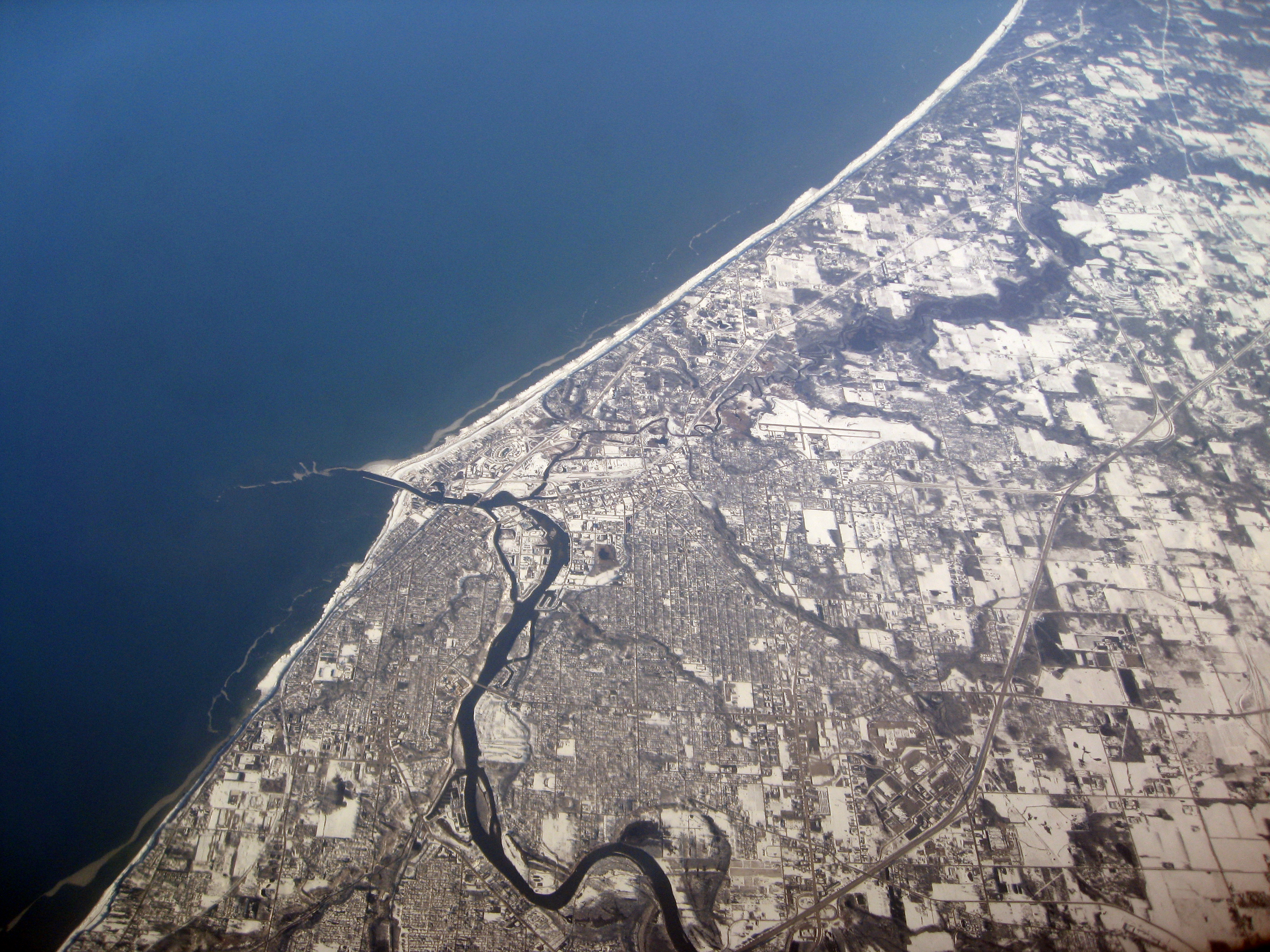 Aerial picture of Benton Harbor, Michigan